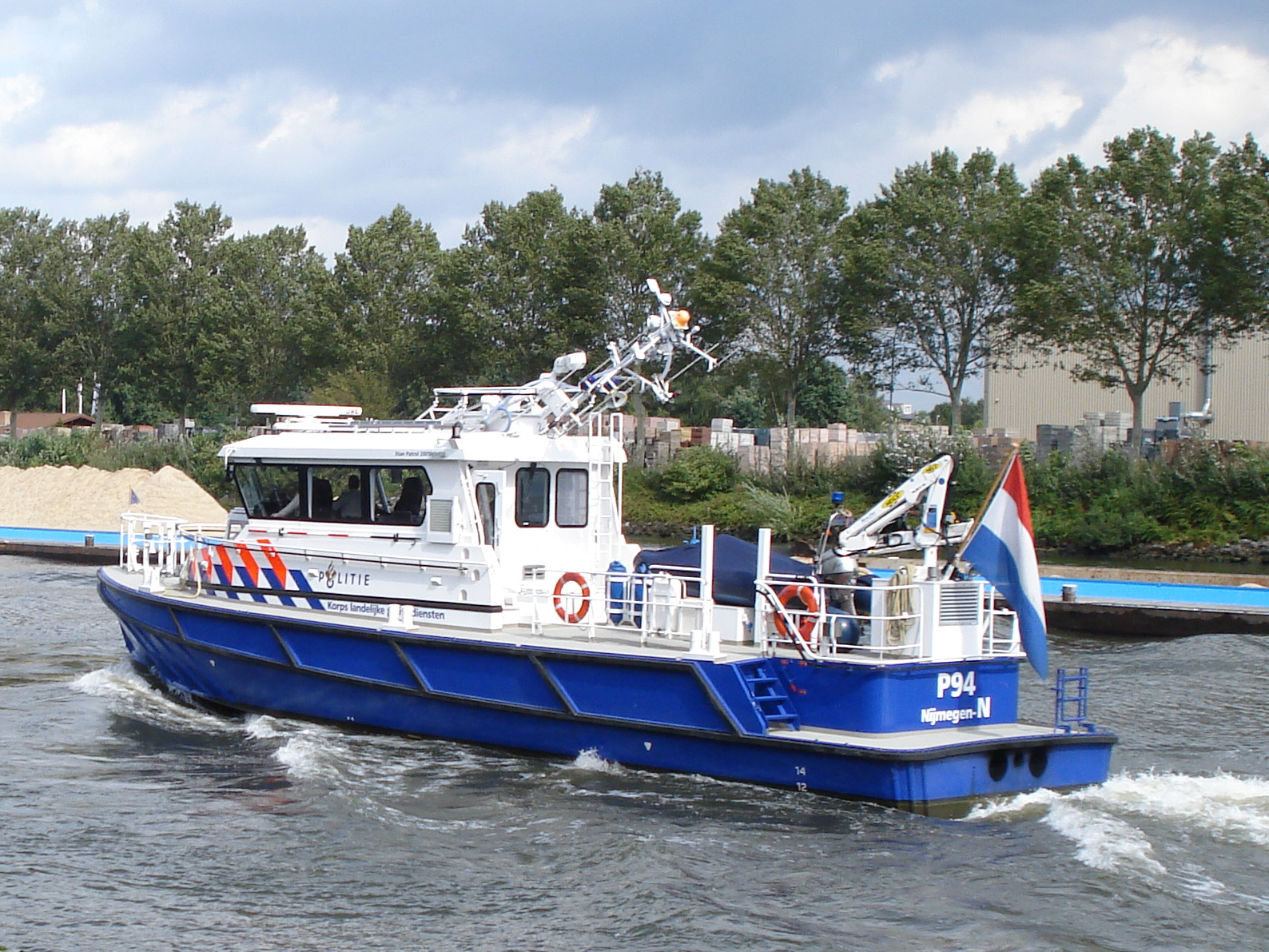 Riverpolice Nijmegen on the Maaswaalkanaal near the Maldense Brug